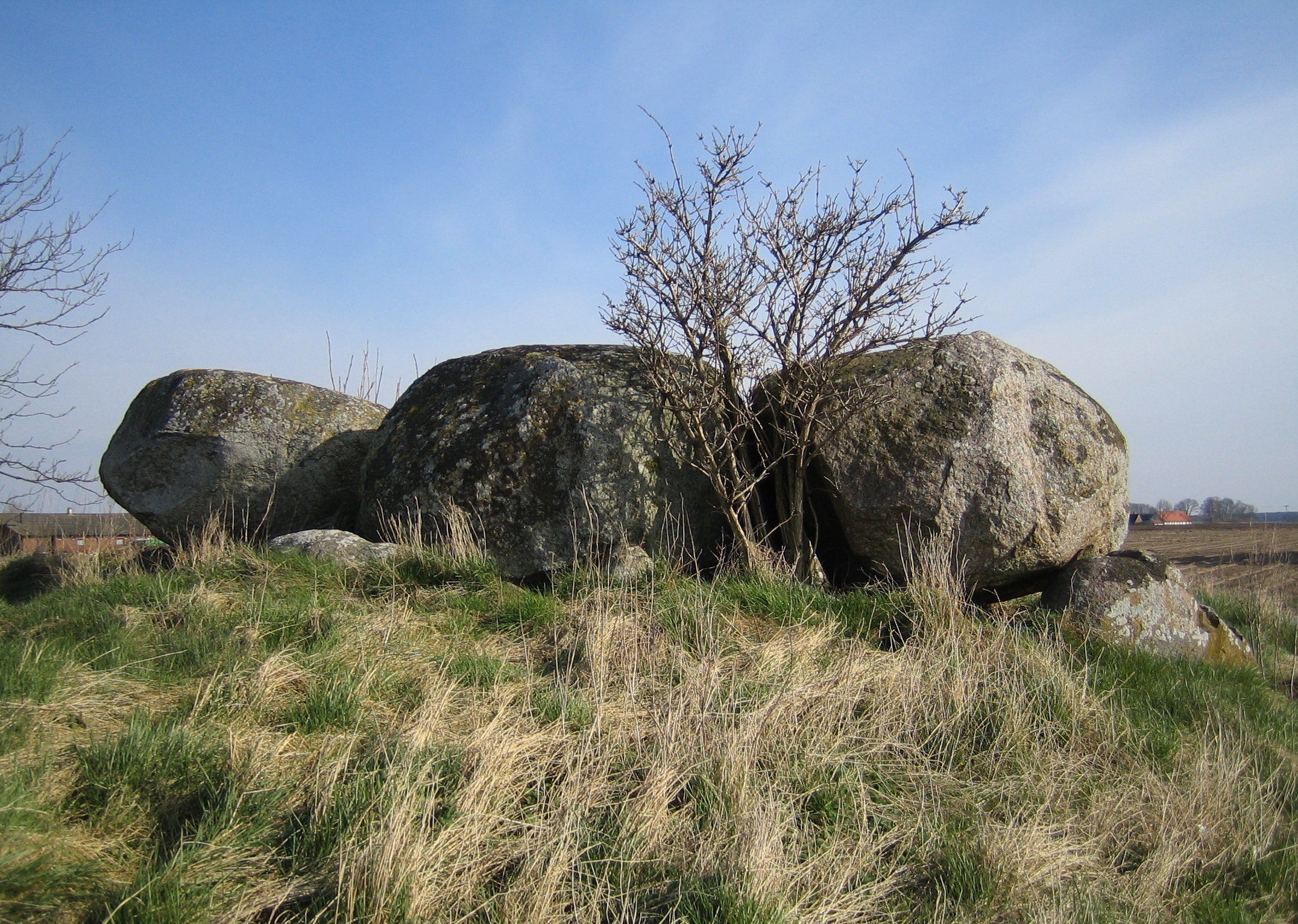 Ramshög megalith grave in Skåne, Sweden